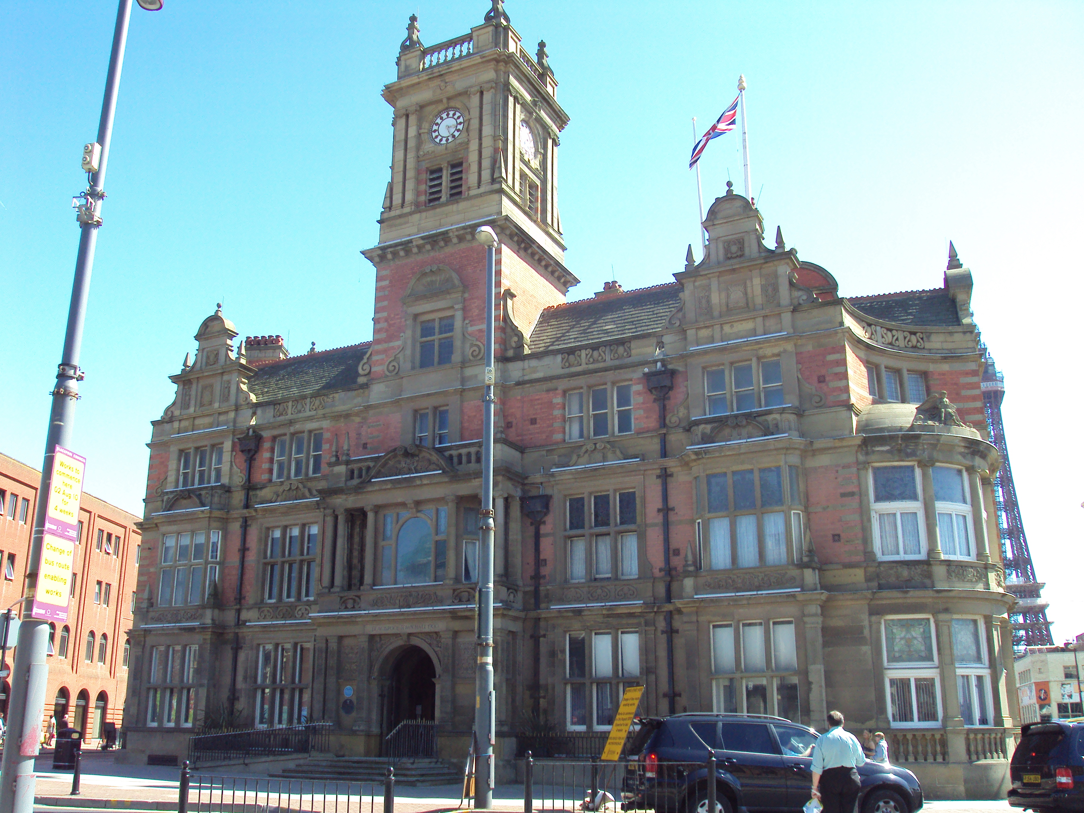 Blackpool Town Hall, 1 Clifton Street, Blackpool, Lancashire.